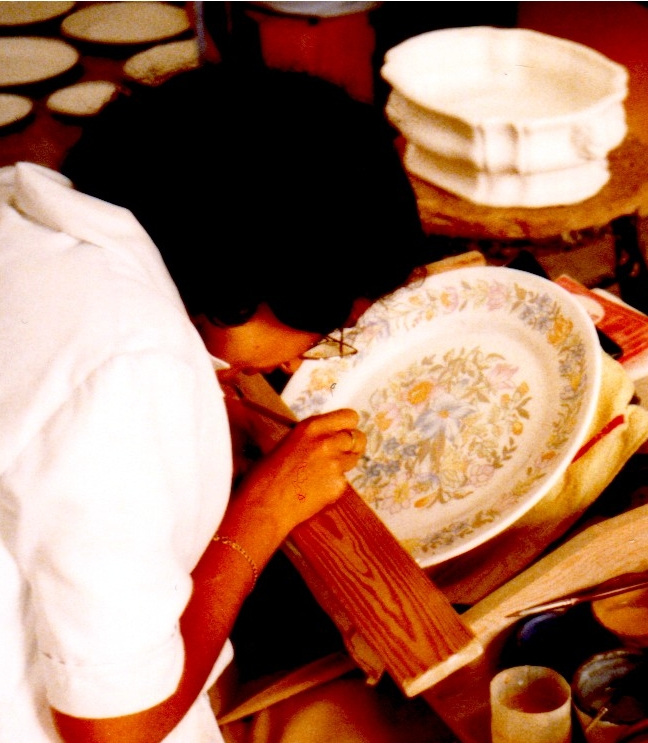 Ceramic painter at Valencia (Spain)